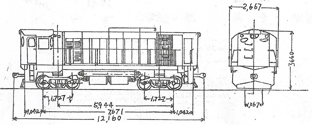 S300